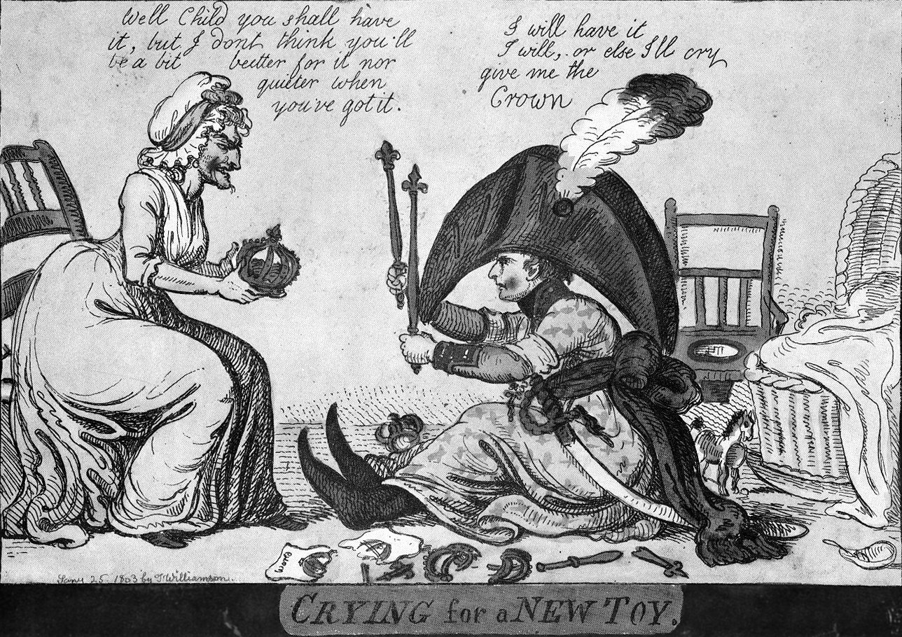 "Crying for a New Toy", a January 25th 1803 satirical caricature attributed to Isaac Cruikshank (father of George Cruikshank) which portrays Napoleon's planned coronation in a rather undignified light. Dialogue in image: Old Nurse: -- "Well Child, you shall have it, but I don't think you'll be a bit better for it, nor quieter when you've got it." Nappy: -- "I will have it, I will, or else I'll cry -- give me the Crown!" (Potty-training chair in background; torn picture of "the world", and broken crowns and scepters litter the floor.)